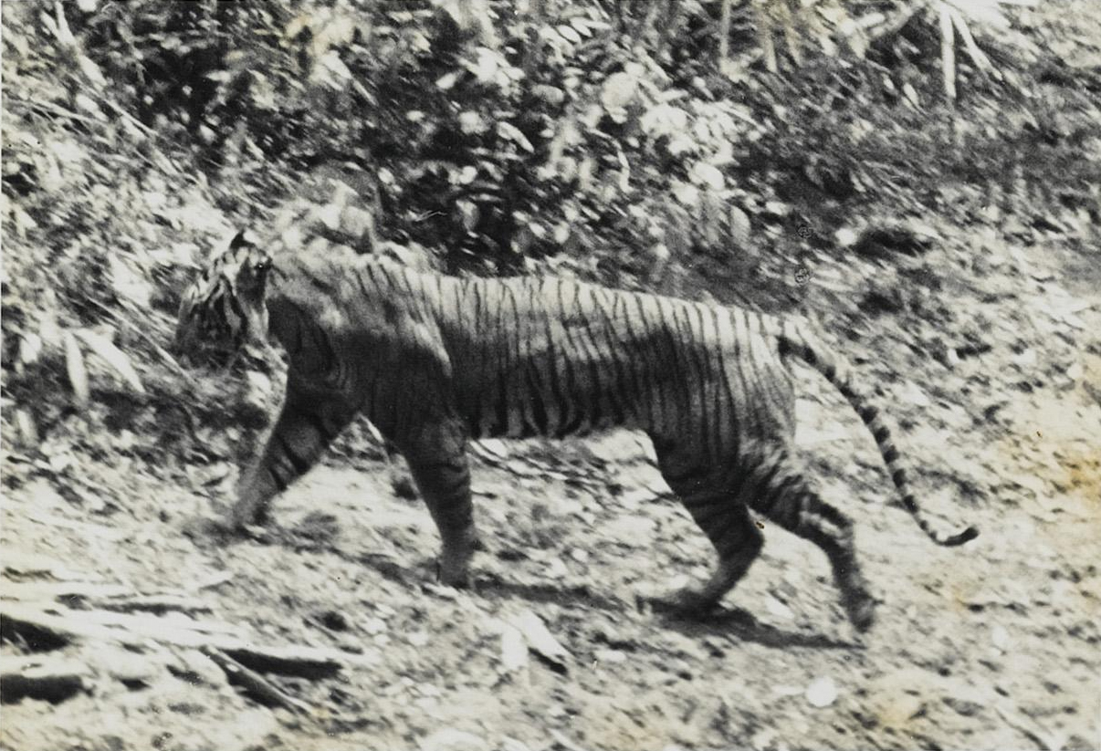 This photograph of a live Javan tiger, P. t. sondaica, was taken in 1938 at Ujung Kulon and published in A. Hoogerwerf's "Ujung Kulon: The Land of the last Javan Rhinoceros".